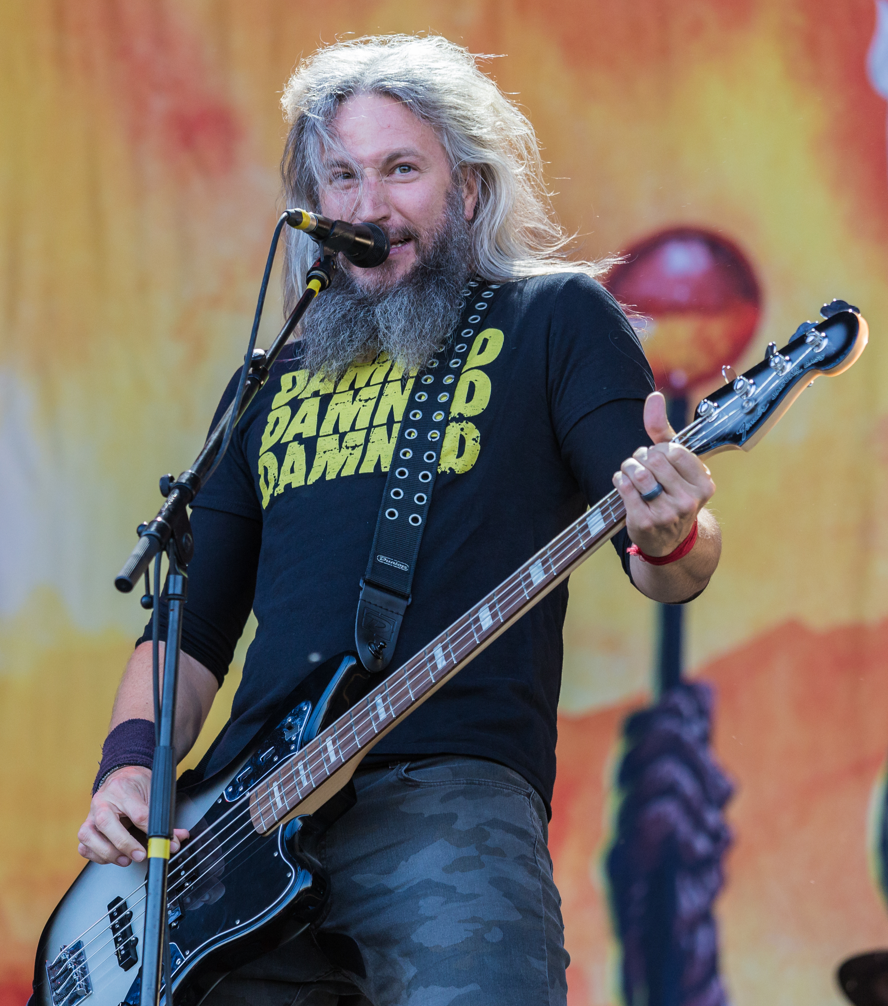 Nova Rock 2017 Troy Sanders from Mastodon at the Nova Rock 2017